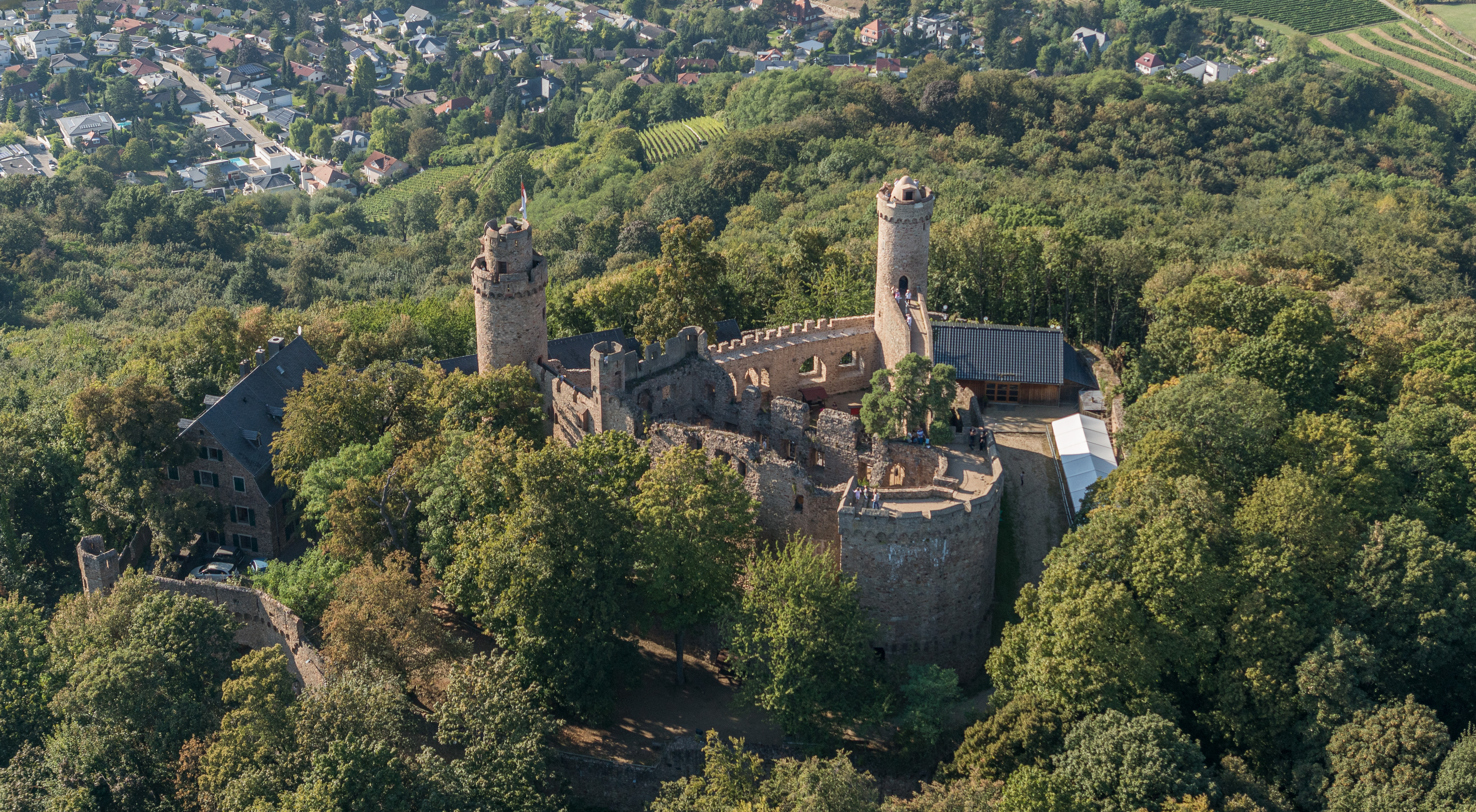 Hesse, Auerbach Castle. Wikidata has entry Q315328 with data related to this item.